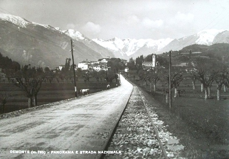 Demonte, strada nazionale